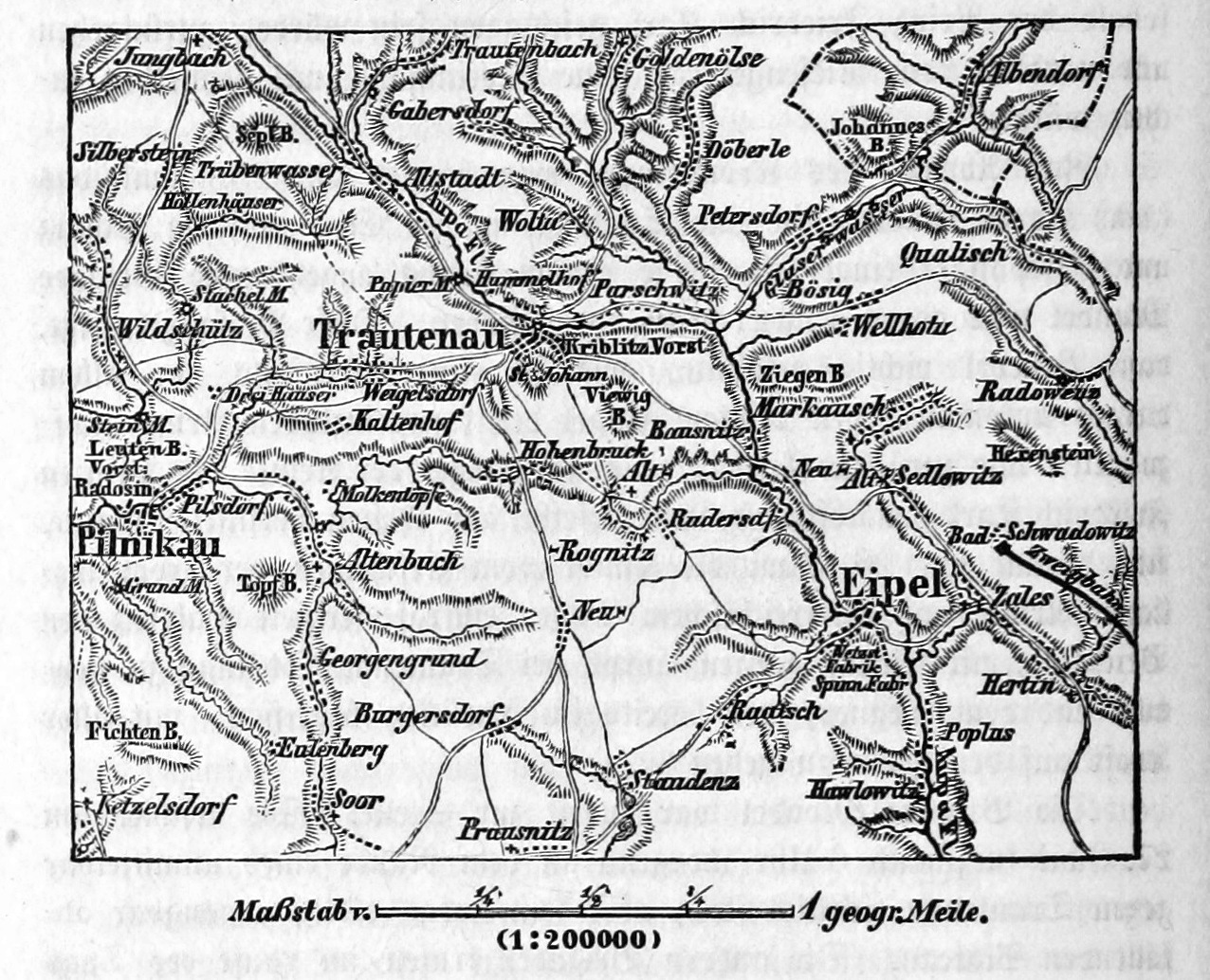 Image extracted from page 264 of Der deutsche Krieg von 1866. Historisch, politisch und kriegswissenschaftlich dargestellt ... Mit Karten und Plänen', by BLANKENBURG, Heinrich - Historical writer. Original held and digitised by the British Library. Copied from Flickr. Note: The colours, contrast and appearance of these illustrations are unlikely to be true to life. They are derived from scanned images that have been enhanced for machine interpretation and have been altered from their originals.